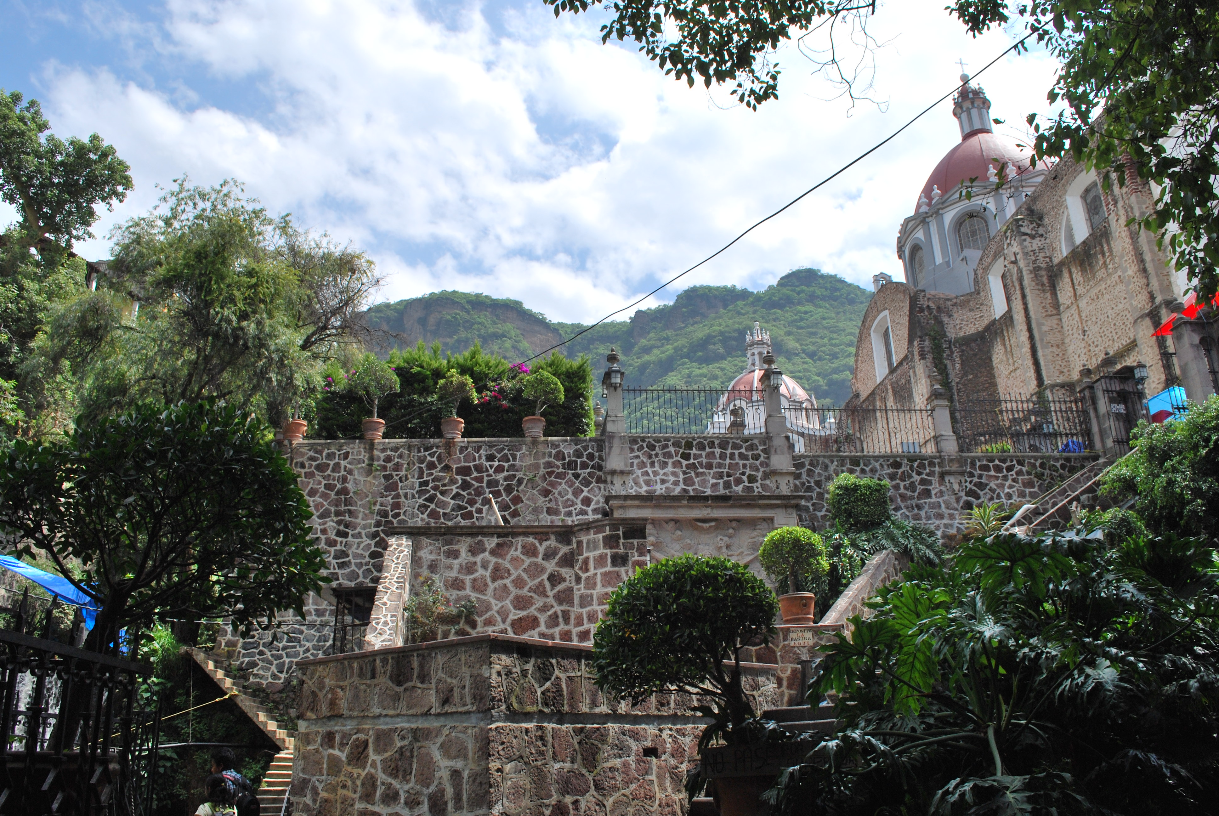 View of the church and hills from the Plaza del Peregrino at the Sanctuary of Chalma in Chalma, Malinalco, Mexico State